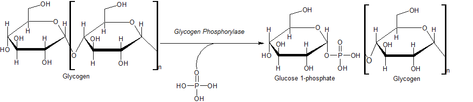 Action of glycogen phosphorylase on glycogen